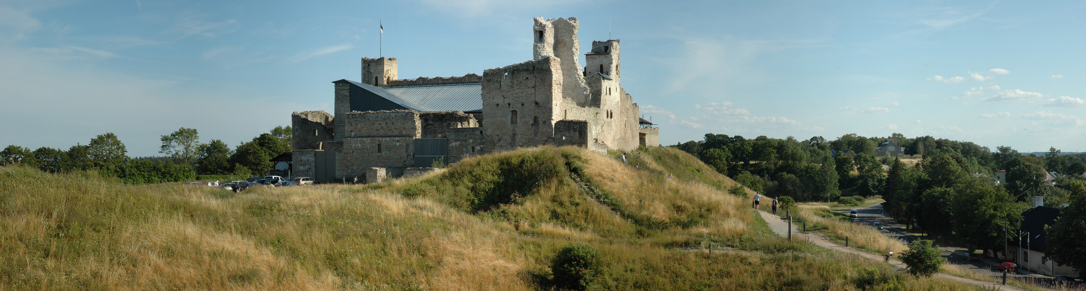 The castle of Rakvere, Estonia